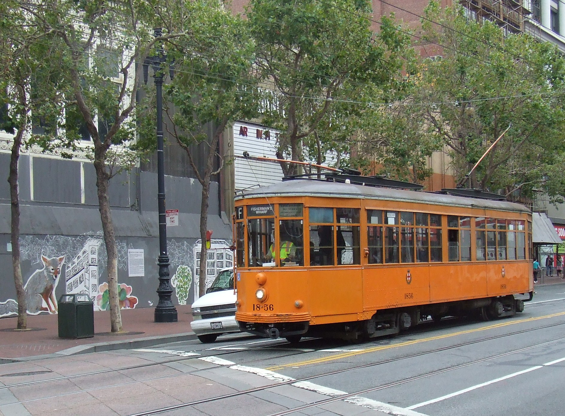 Milano's Tram in S. Francisco